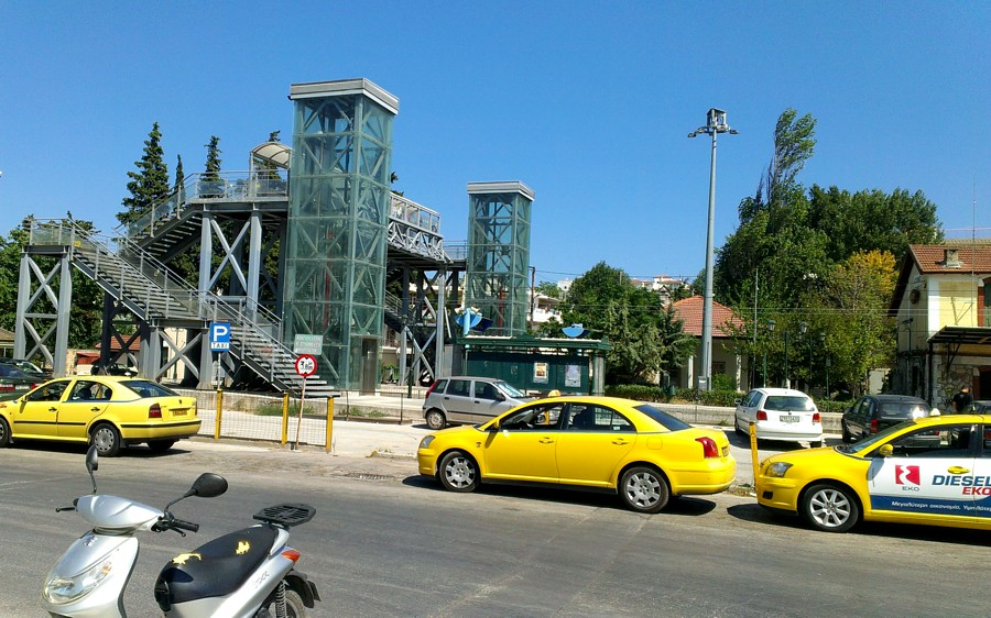 stathmos